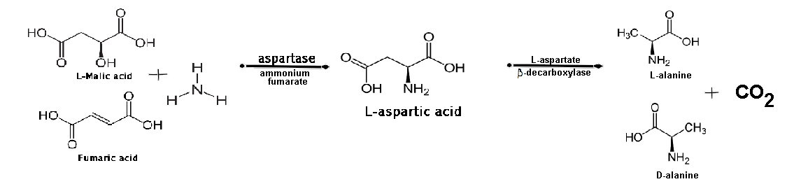 Alanine production